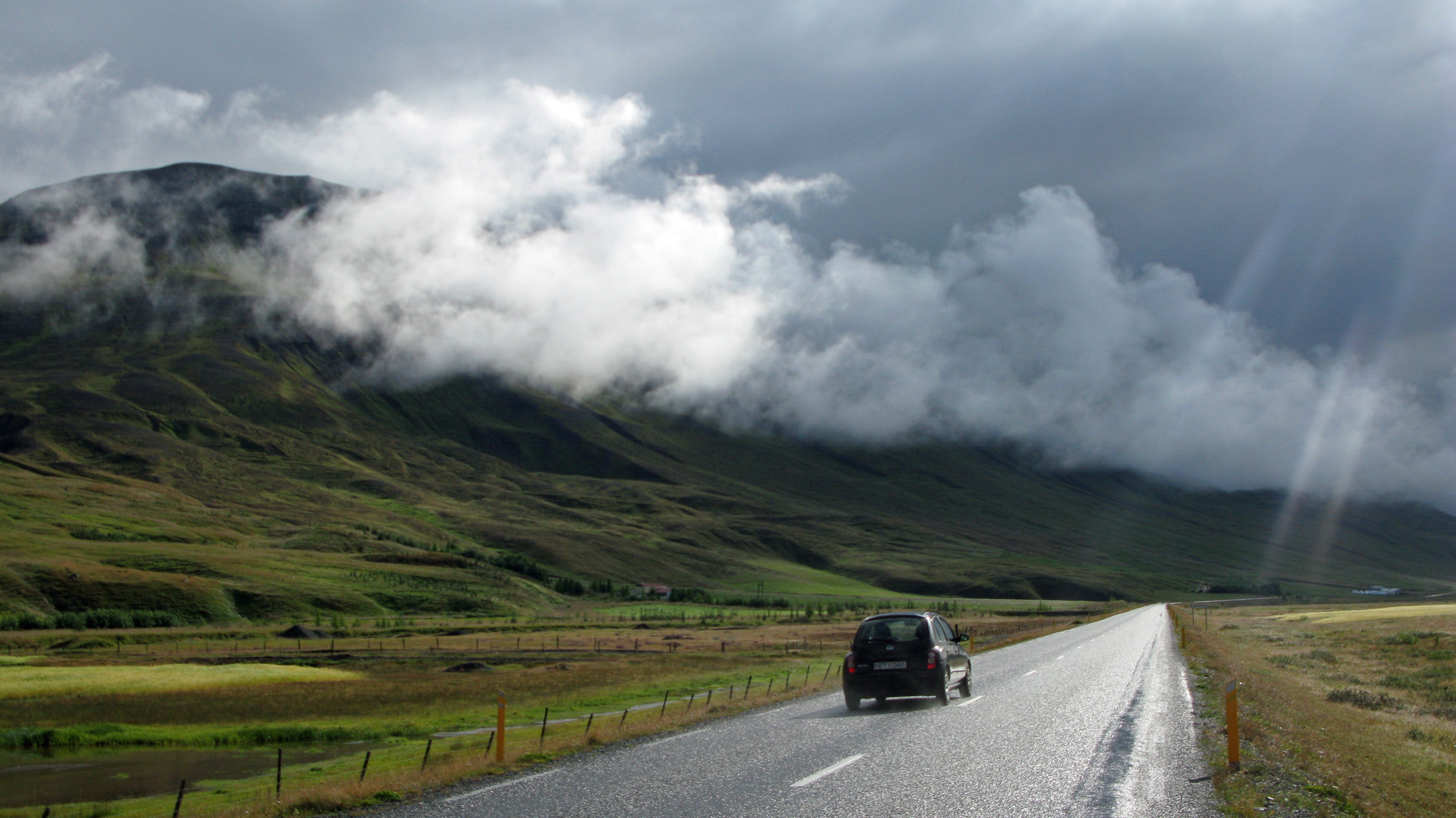 Route 1. Iceland.